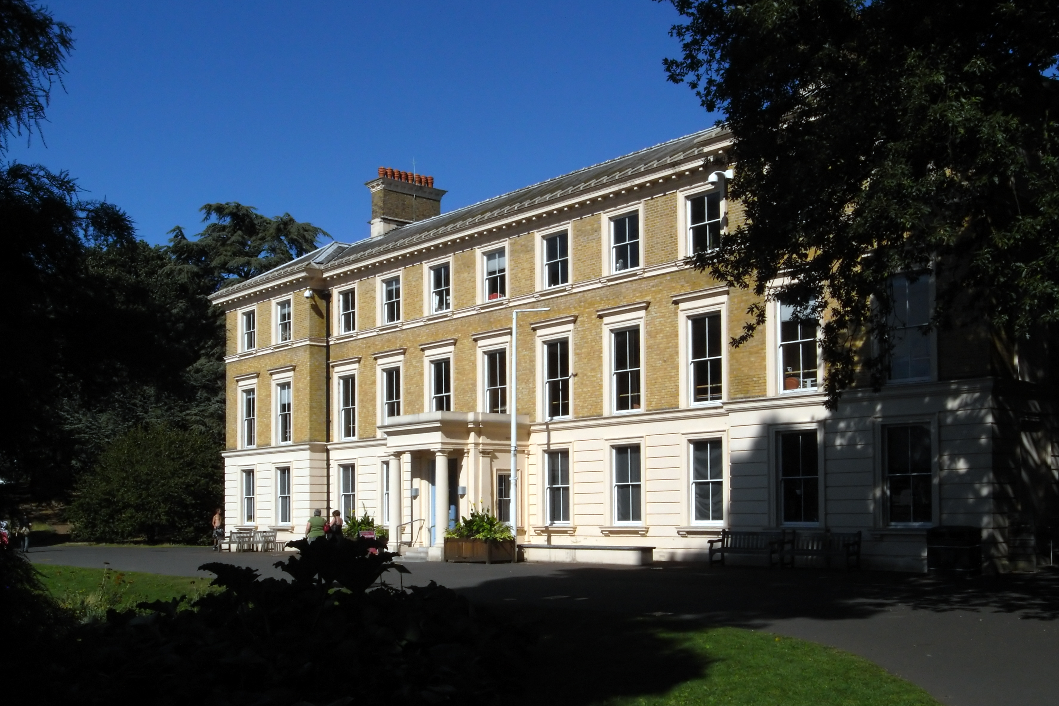 Museum No. 1, Kew Gardens, London.